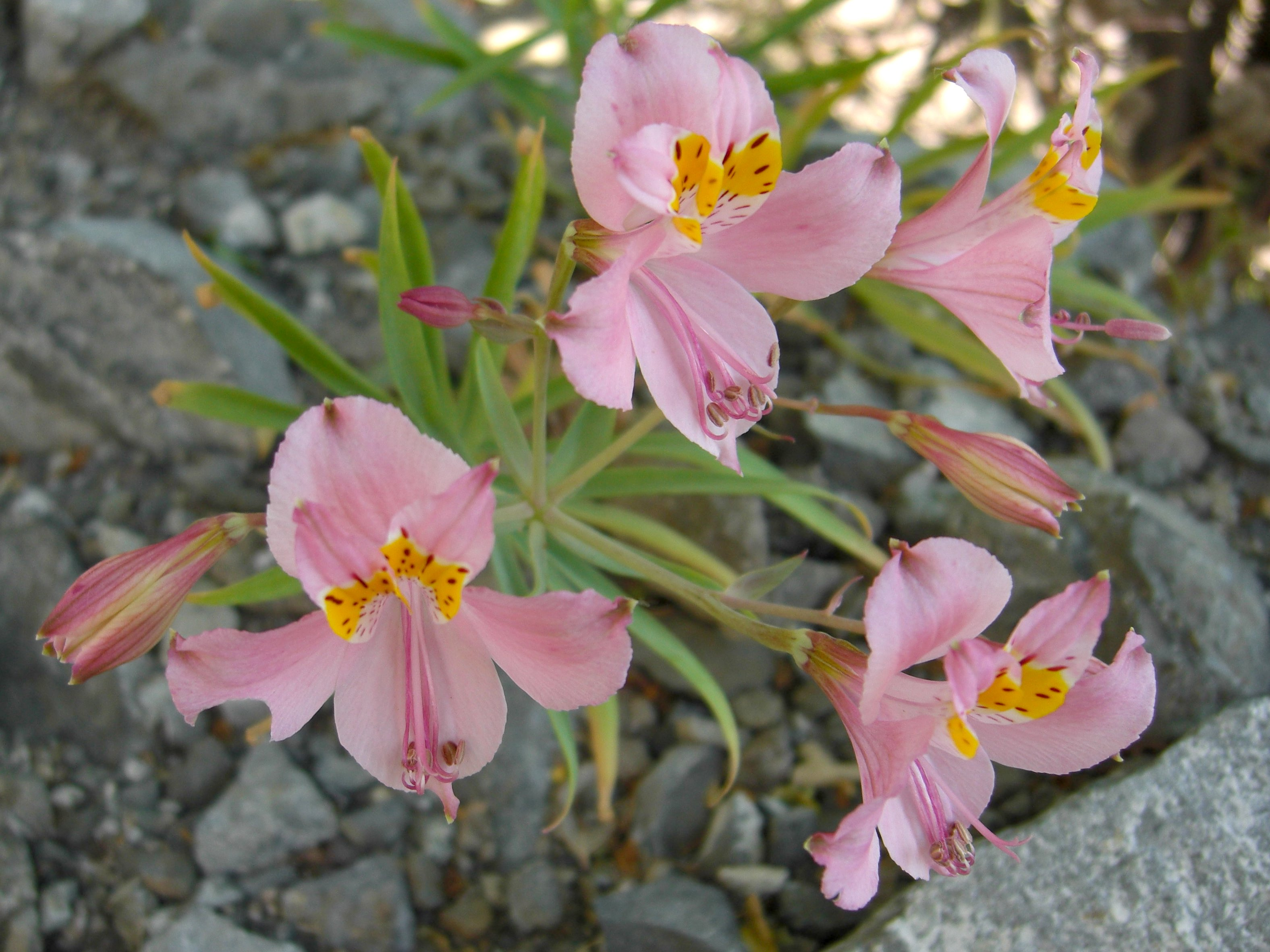 Alstroemeria angustifolia Herb. 20081122.7 valley east of Santiago, Chile (I'm guessing based on photos at